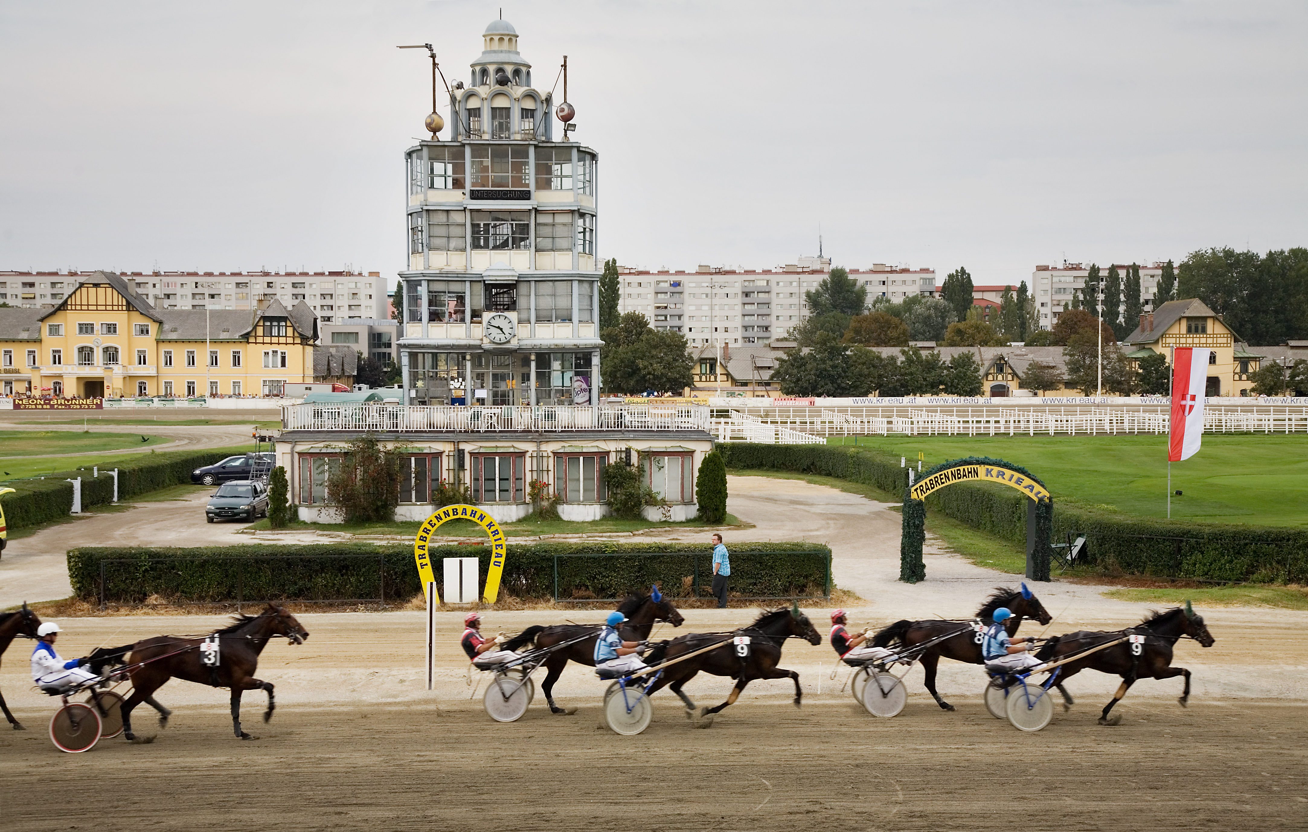 Trotting racing stadium Krieau Vienna, Austria